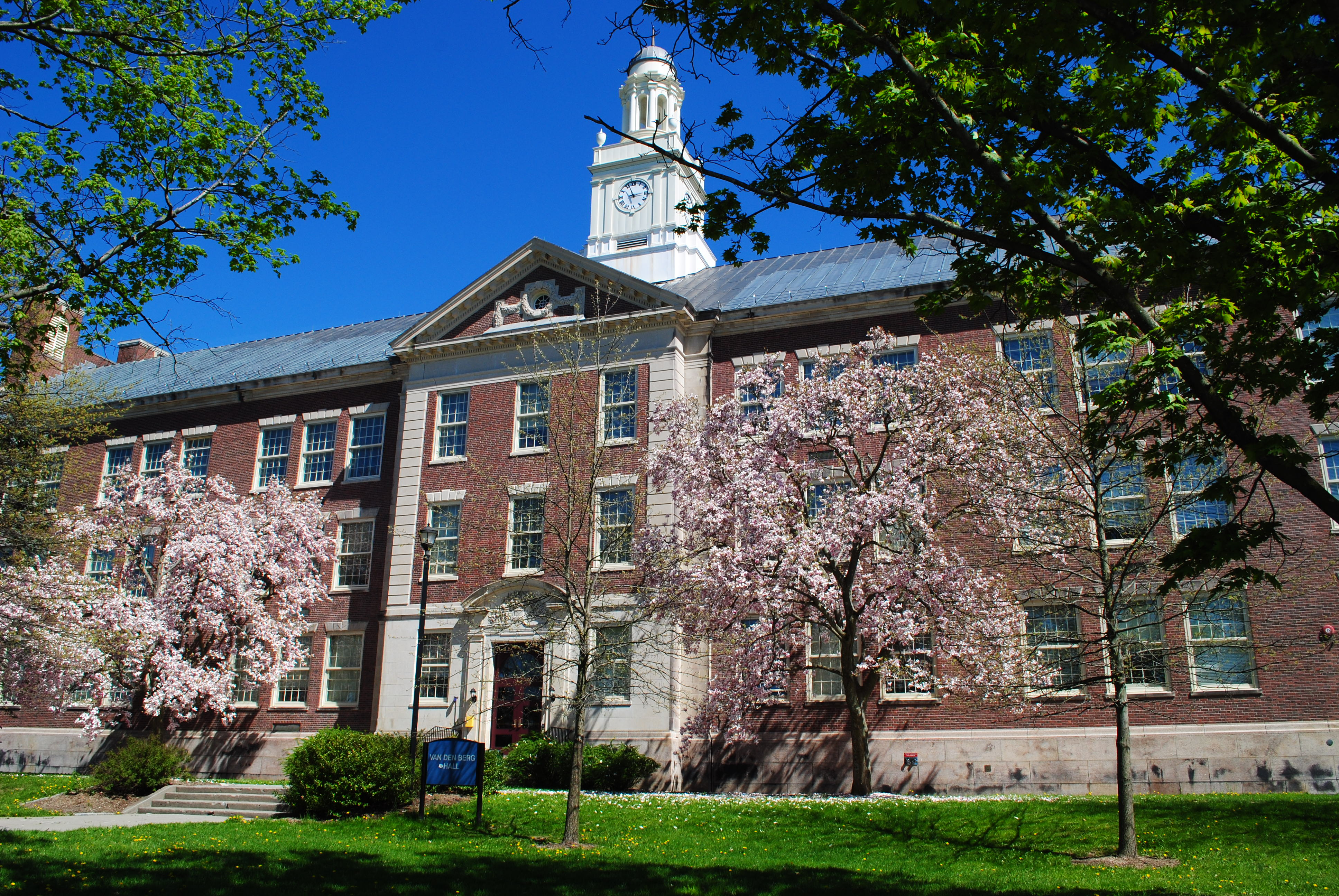 A picture of van den Berg Hall at SUNY New Paltz in New Paltz, NY.